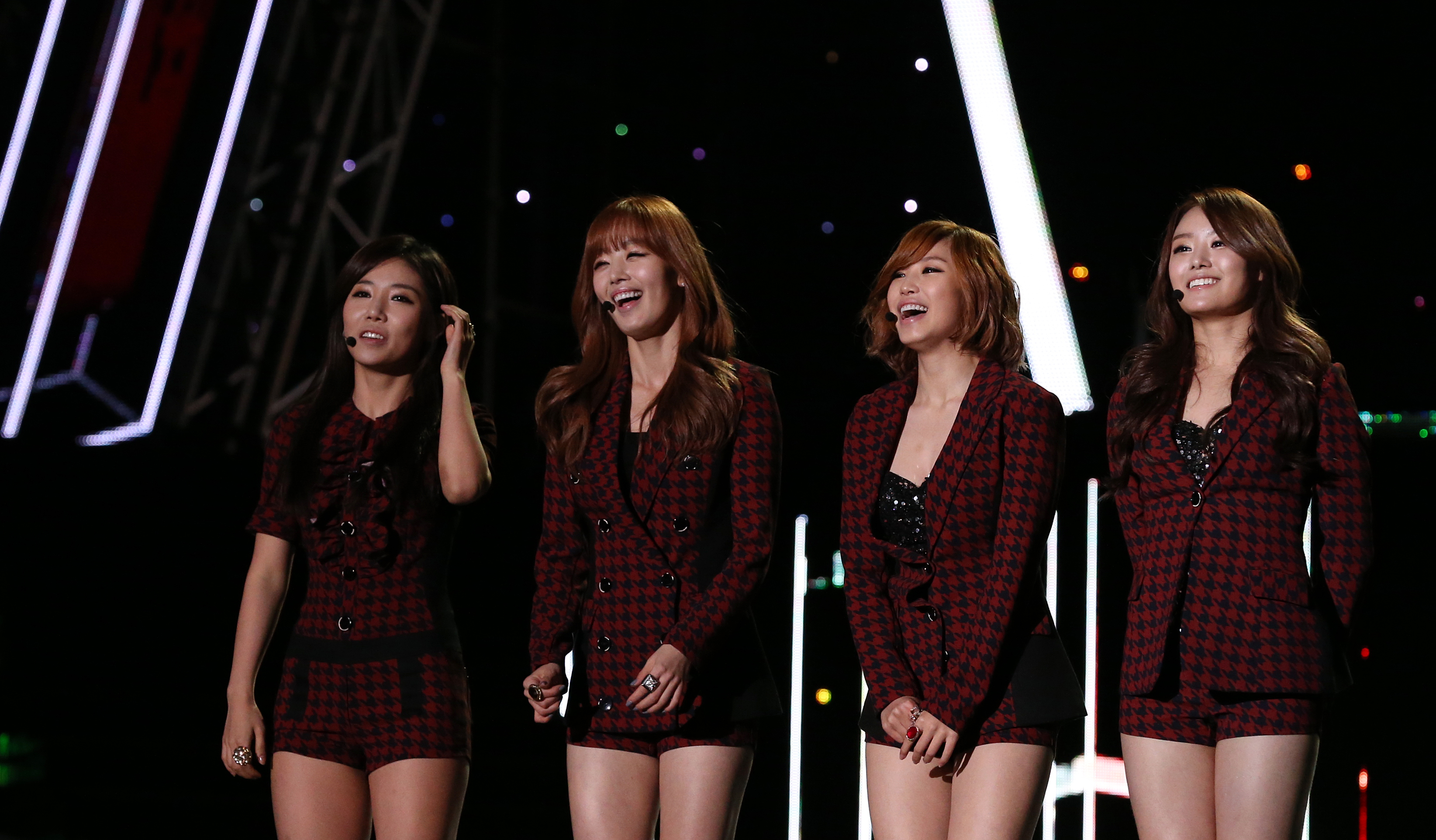 2012 K-POP World Festival Specisl Performance by 'Secret' Changwon, Korea 2012.10.28. Ministry of Culture, Sports and Tourism Korean Culture and Information Service Jeon Han 2012 K-POP 월드 페스티벌 시크릿 축하공연 경상남도 창원시 문화체육관광부 해외문화홍보원 코리아넷 전한